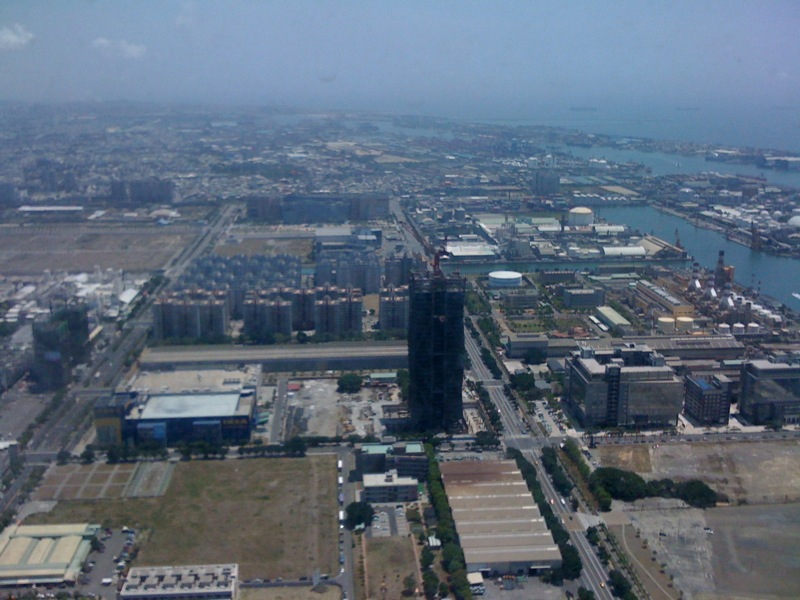 Kaohsiung Multi-functional Park for Commerce and Trade.